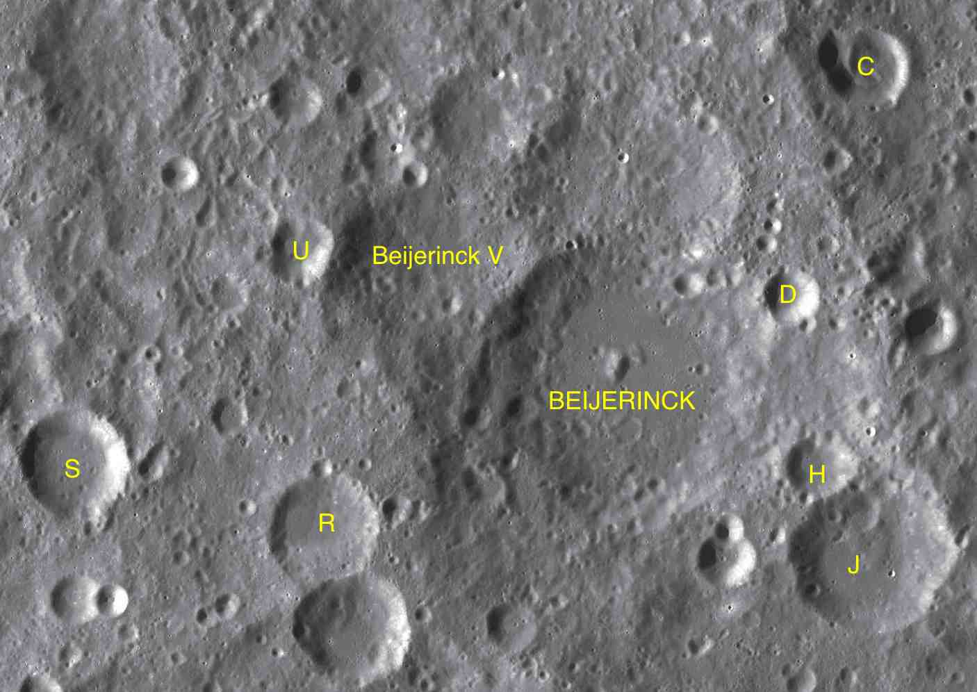 Parts of the charts LAC-84, LAC-85 used for the presentation